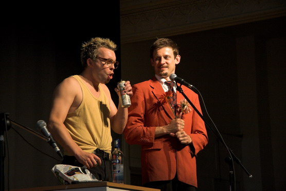 Kabaret Ani Mru Mru performing in Edinburgh. More photos here.